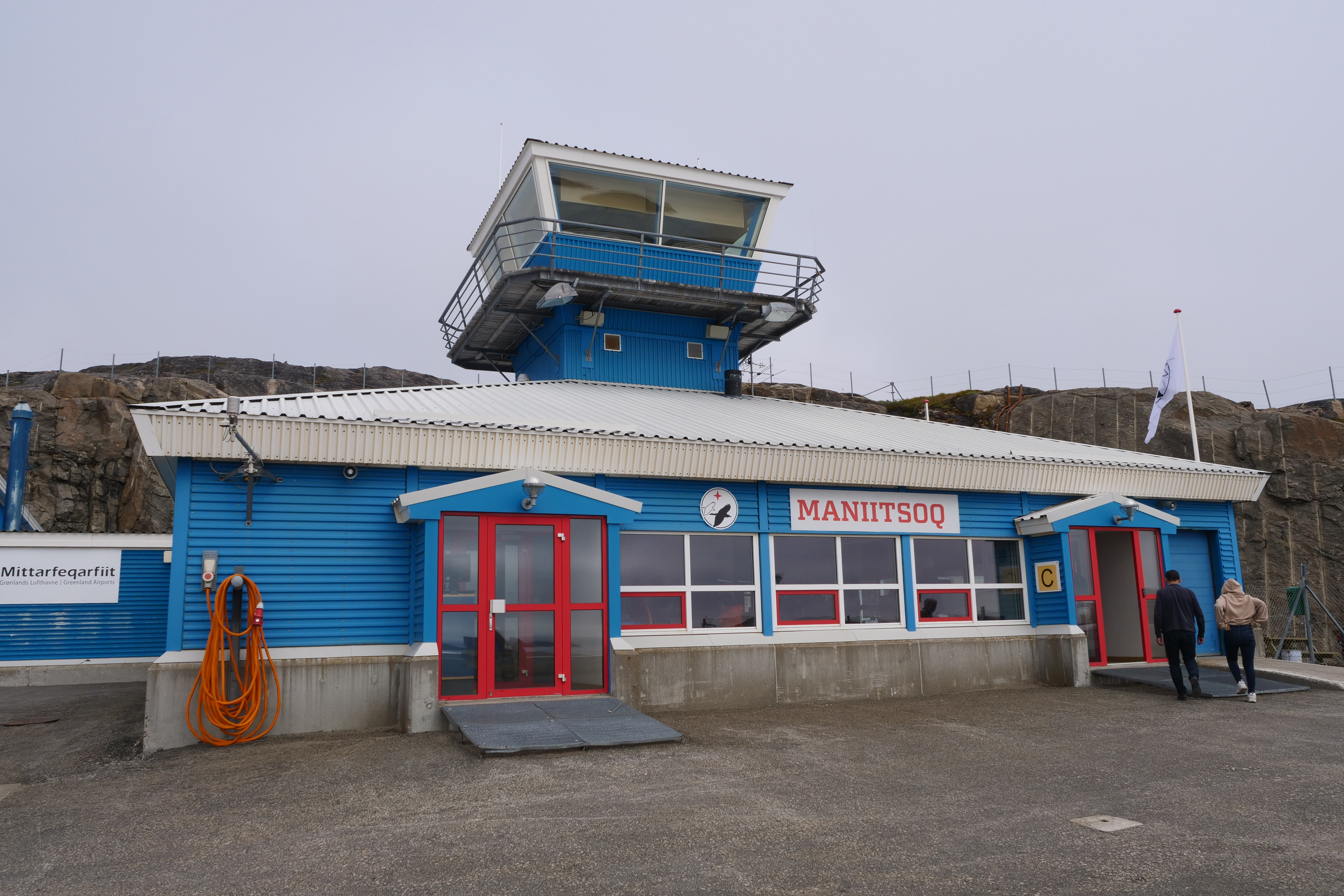 Maniitsoq Airport terminal in 2019.